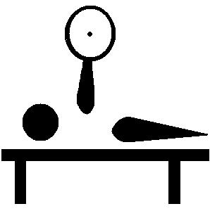 Powerlighting